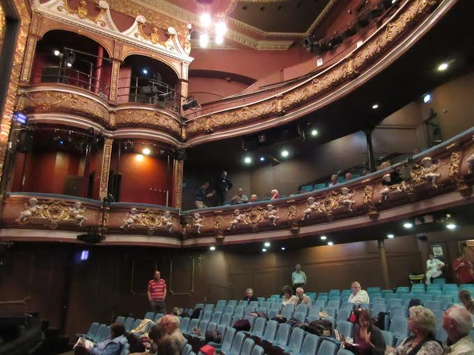 The interior of the Harrogate Theatre, in Harrogate, England.